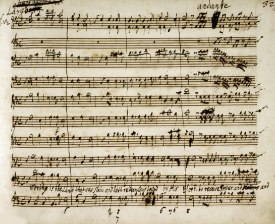 Part of "Worthy is the Lamb", the final chorus of Messiah by Handel, from the composer's autograph score: Fascimiles of this were already reproduced with permission and sold before 1903.[1] ↑ Novello Ewer & Company; Mason, Daniel Gregory (ed) (1903). "Advertisement for Handel's 'The Messiah'". Masters in Music 2. Massachusetts, United States: Bates & Guild Company. Retrieved on 2011-07-13.